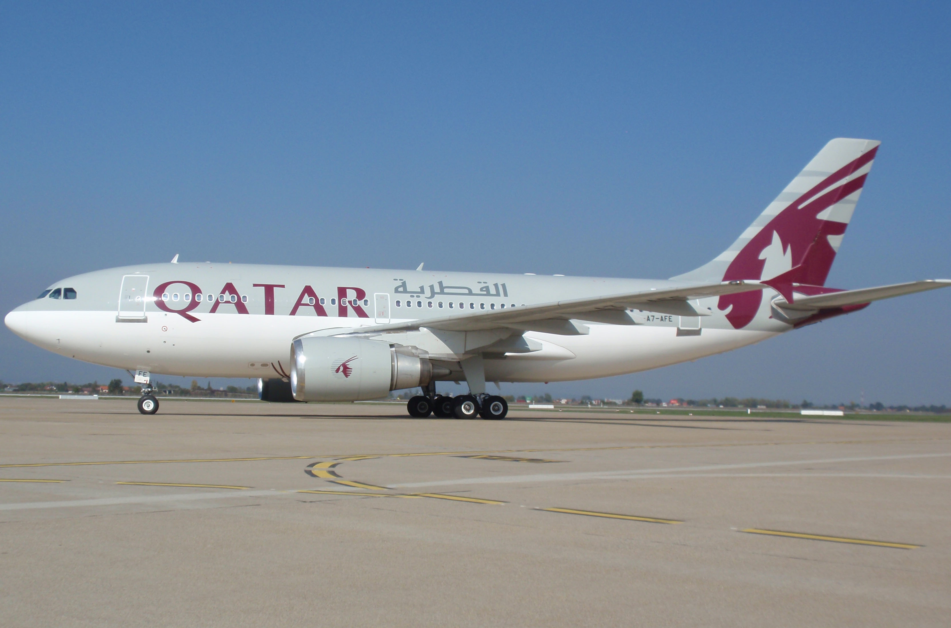 Qatar Airbus A310-308 A7-AFE